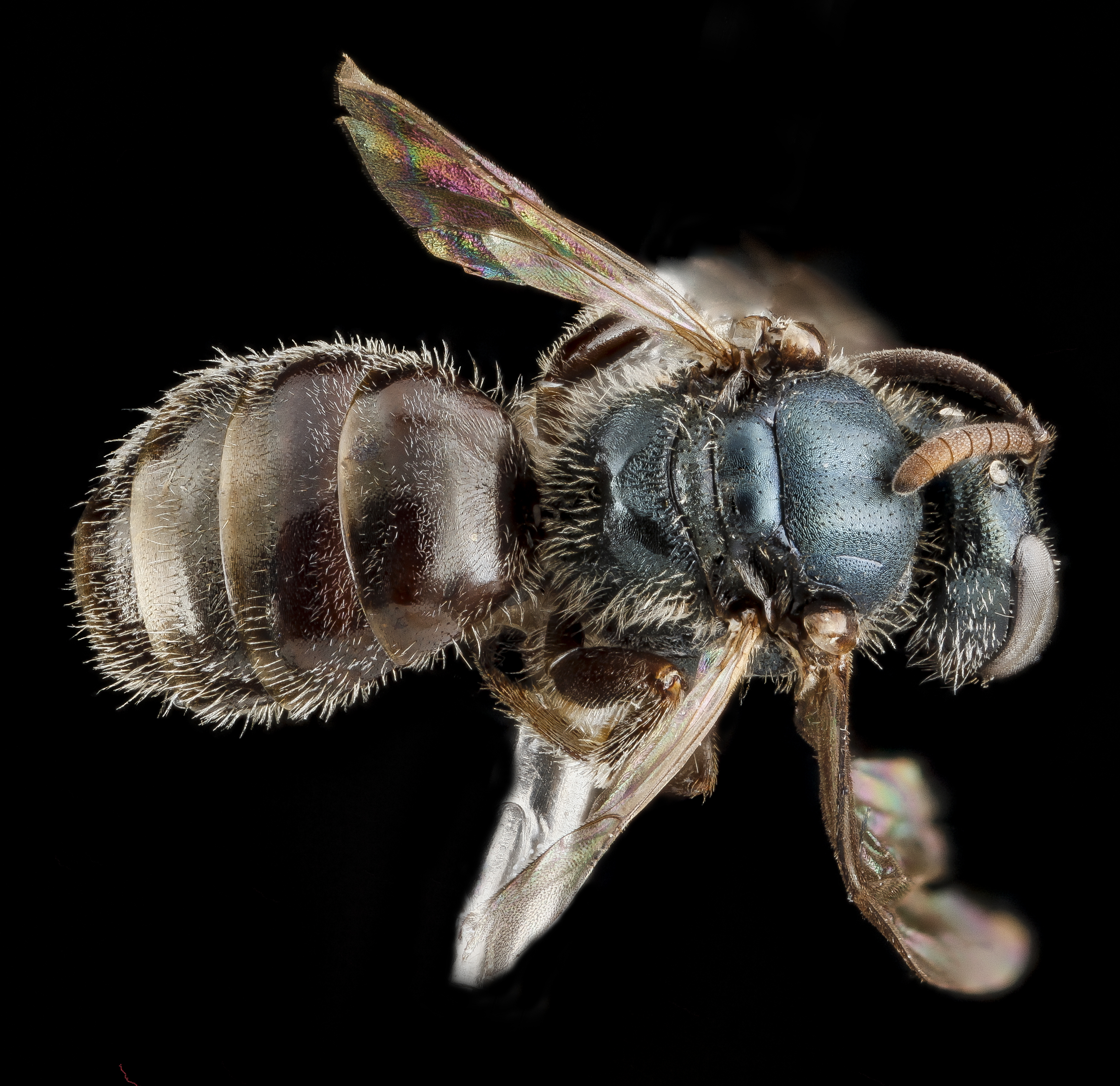 Captured as part of a Global Climate Change investigation in National Park Dune systems, yet another tricky Dialictus is photographed here. As the name suggests it is a lover of salt, in this case, salt marshes.. Photograph taken by Kamren Jefferson, bee captured in Timucuan Ecological & Historic Preserve